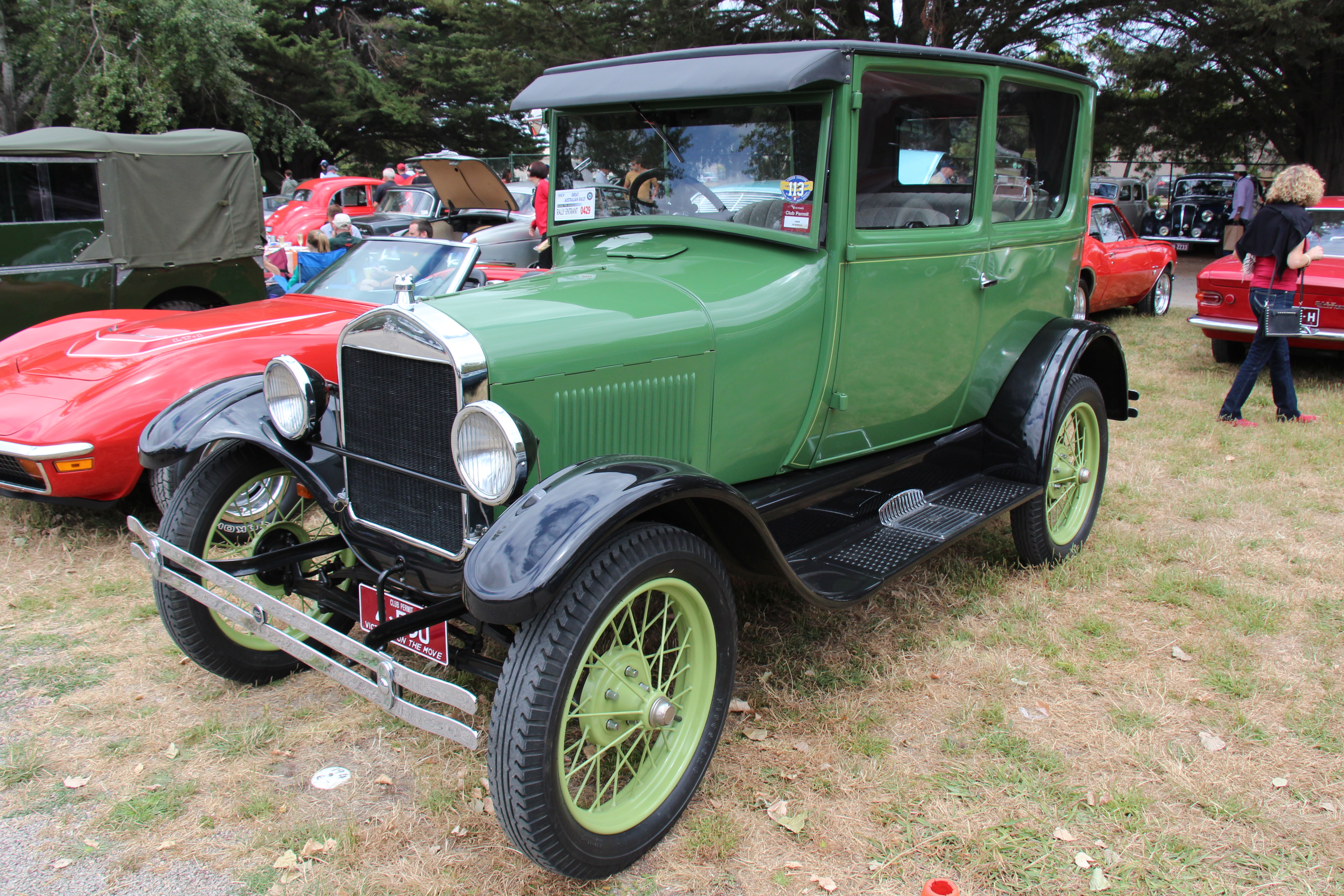 The Model T Ford was built from 1908-1927. The Ford Motor Company was established in 1903, a few models were built before the Model T, but the T was the first mass produced car. Henry Ford wanted to keep the price low as possible so every middle class American could afford one, so to increase efficiency, he was the first to use assembly line production. Ford made use of the knock-down kit concept, so almost from the beginning, the Model T was built in other countries as well as the US, such as England and Australia. In Australia Ford cars were supplied by Ford Canada to avoid extra import duties imposed on non-Empire produced goods. They were originally shipped virtually complete, but as the number of local body building operations grew motor cars were increasingly delivered as CKD form. 1909-14 T1; Flat top hood, flat cowl below screen and gas lights. Cars from 1913 to 14 had the dog leg windscreen 1915-16 T2; louvres in hood, contoured cowl, electric lights.. 1917-23 T3; Hood tapered with a curved top, hinges moved. 1923-25 T4; Angled Screen, taller and wider at firewall. 1926-27 T5; Wire wheels, cowl now similar to Model A. From 1914-26 Model Ts were "any colour so long as it is black" Engine; 20hp 177 Cu in